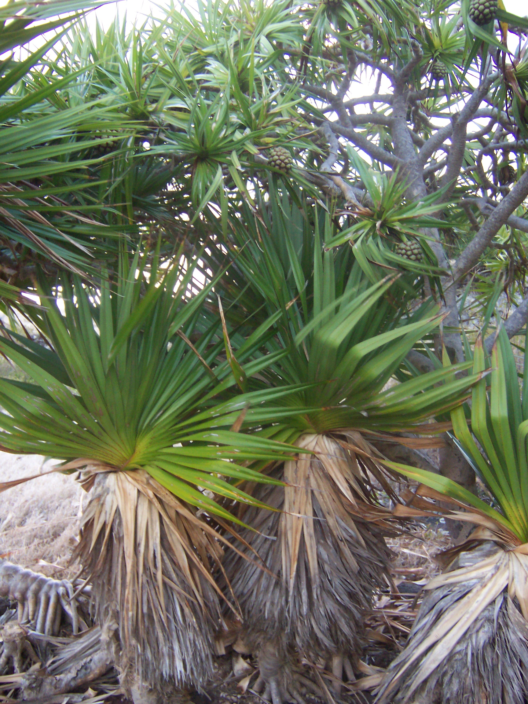 Pandanus heterocarpus (